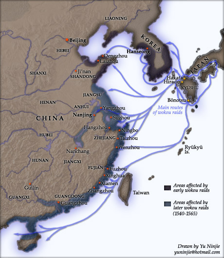 Sixteenth-century Japanese pirate (Wokou) raids against China & Korea. Based on Map 23, from The Cambridge History of China, Vol. 7: The Ming Dynasty 1368-1644, Part I (Cambridge University Press: 1988) Modern provinces of China are shown. Created and copyright (2004) by Yu Ninjie, with thanks to suggestions from Ran. Released under the GNU FDL.